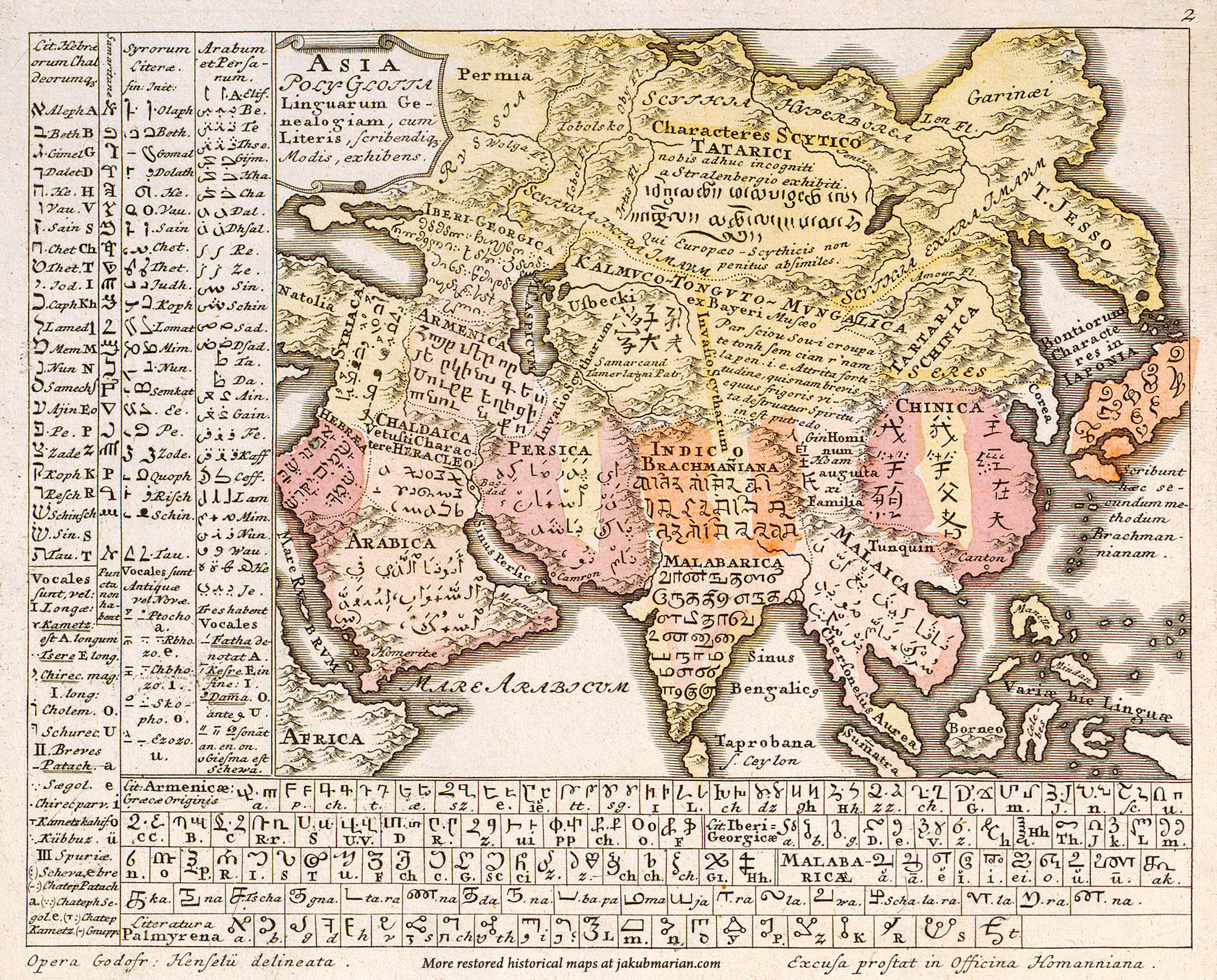 Gottfried Hensel's linguistic map of the world